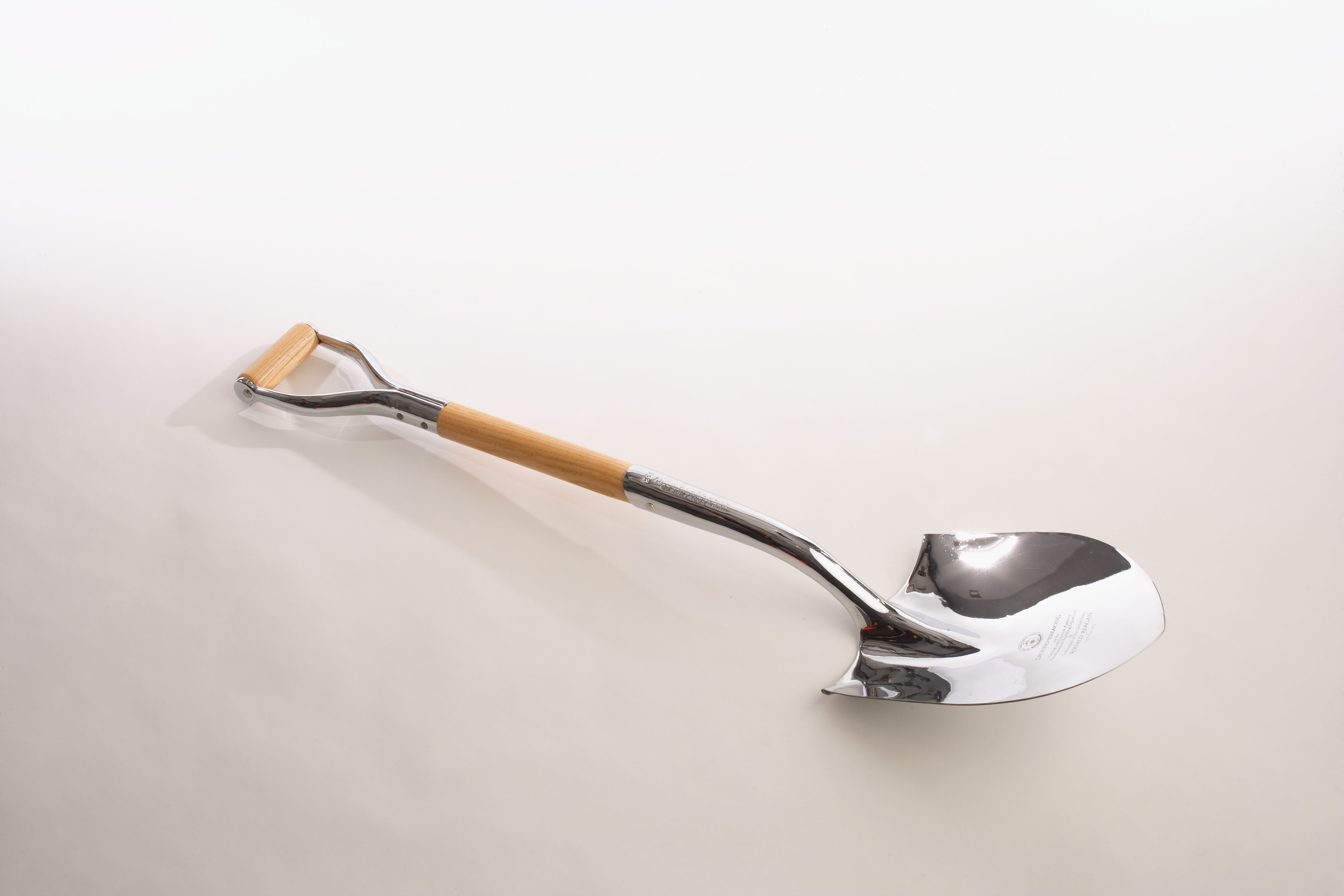 This shovel was used by then-President Reagan at the New Headquarters Building groundbreaking ceremony on May 24, 1984. For more information on CIA history and this artifact please visit